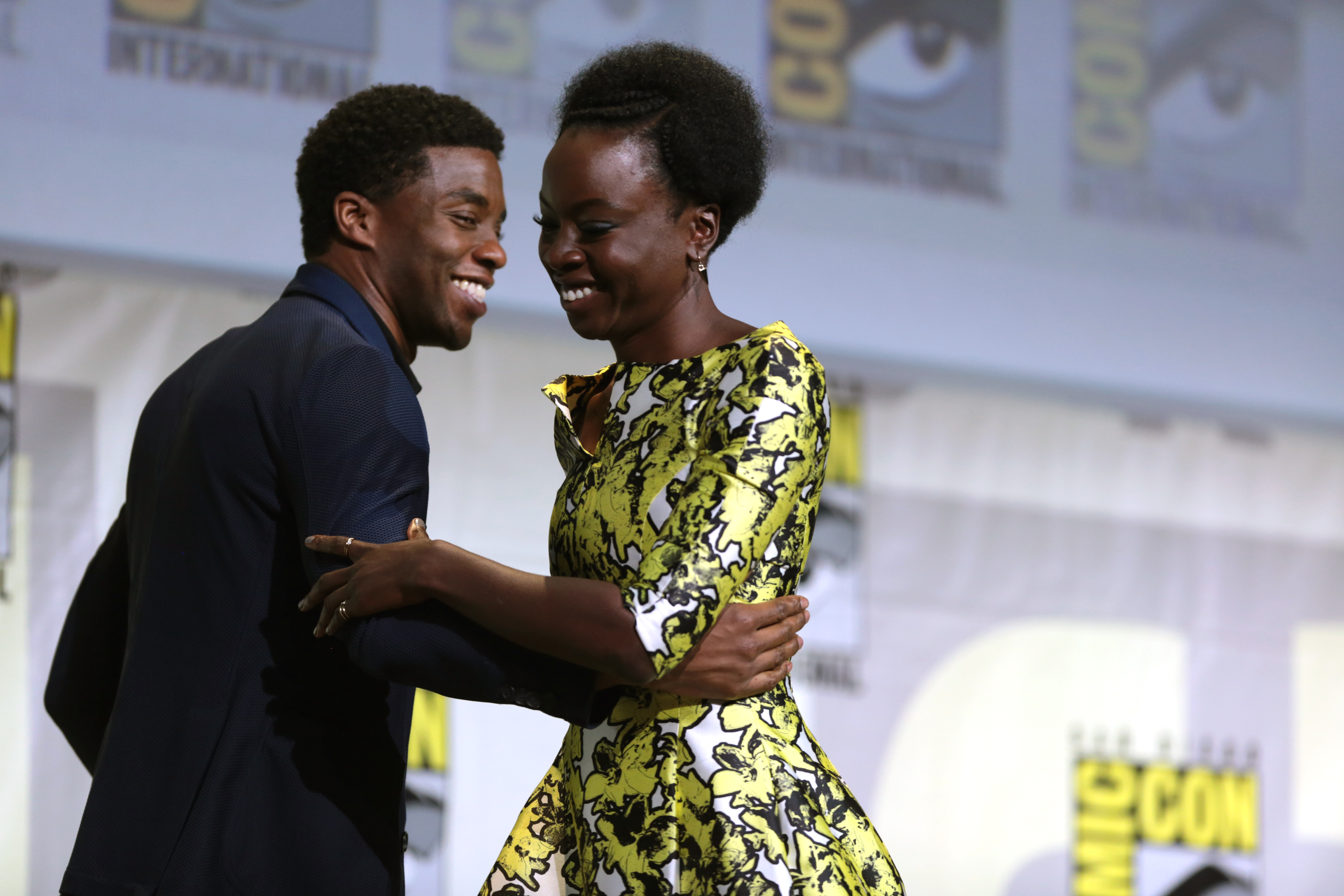 Chadwick Boseman and Danai Gurira speaking at the 2016 San Diego Comic Con International, for "Black Panther", at the San Diego Convention Center in San Diego, California.